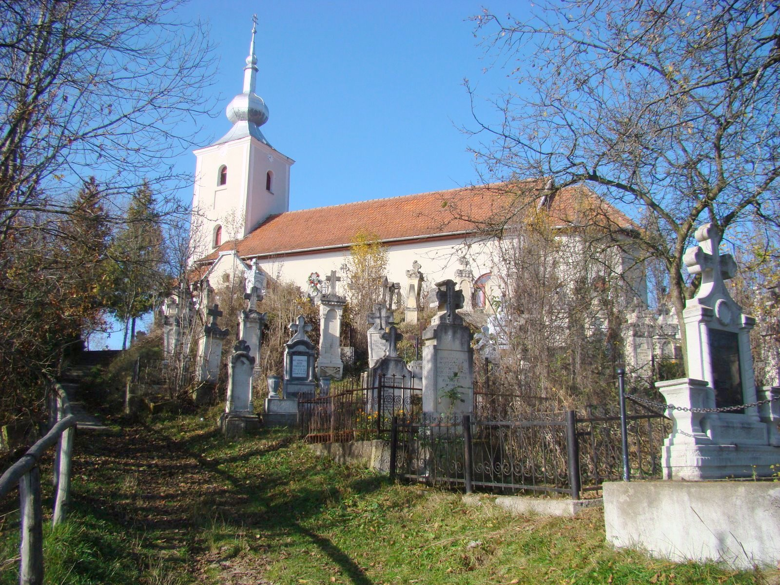 Church of the Ascension in Podeni, Cluj county, Romania